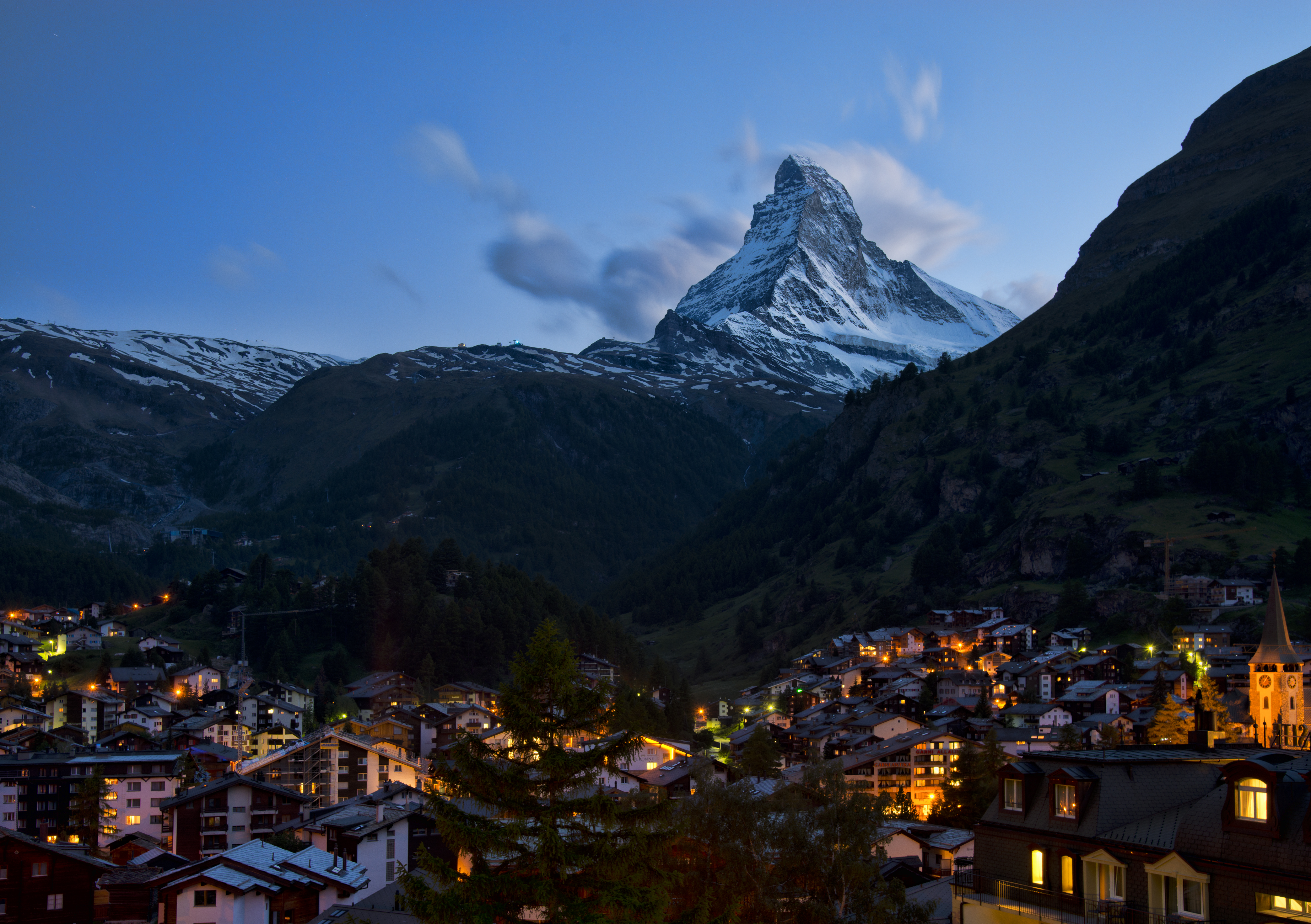 zermatt switzerland matterhorn night 2012